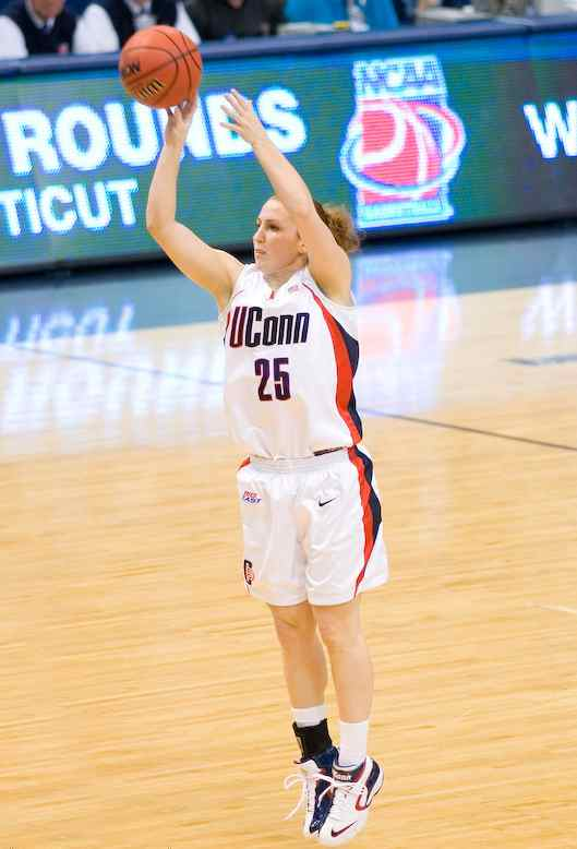 Mel Thomas in Green Bay game 3-20-07